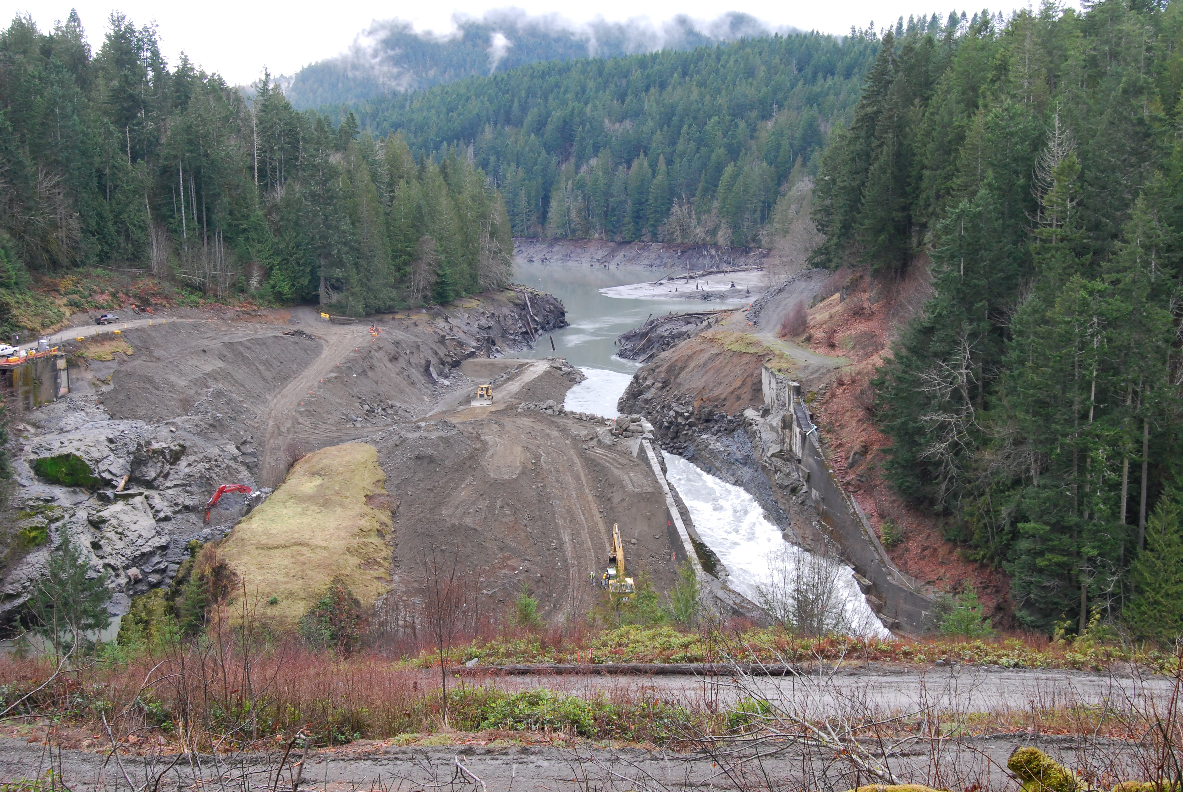 What little remains of the Elwha Dam as of February 14, 2012.